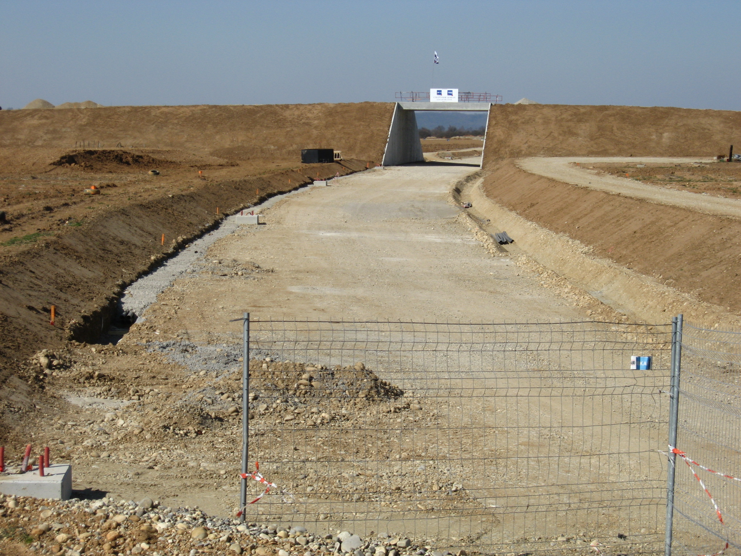 Looking to the North, the new road bridge over the Leslys tramline for the road D302 (Meyzieu - Pusignan)